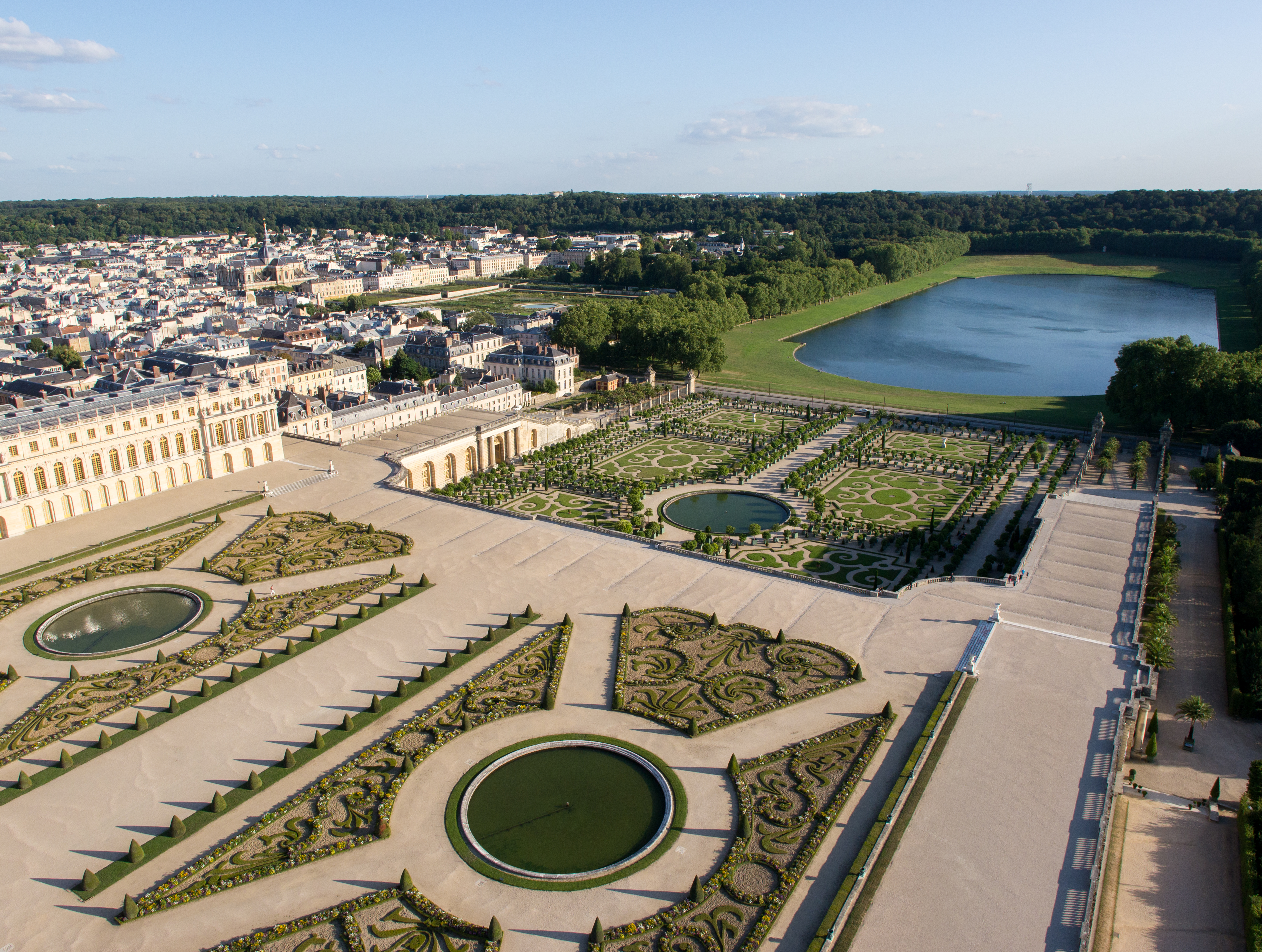 Aerial view of the Gardens of the Palace of Versailles, France, with the Parterre du Midi, Parterre de l'Orangerie et pièce d'eau des Suisses. In the background, the quartier Saint-Louis (Saint-Louis neighborhood) of the city of Versailles withs its Cathedral .